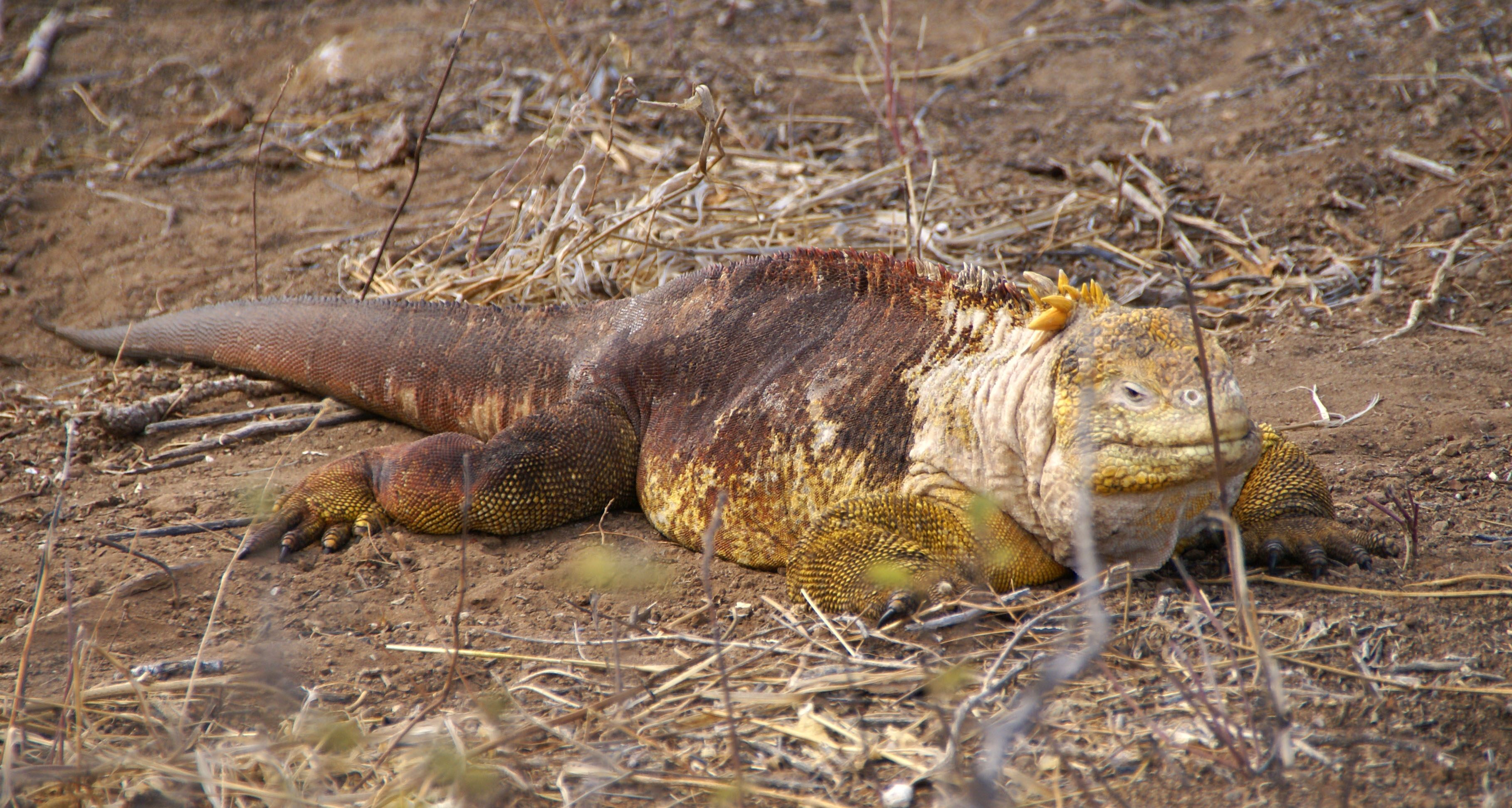 Conolophus subcristatus, a Galapagos land iguana basking in the sun.